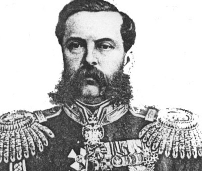 Portrait of Nikolay Adlerberg, governor of Taganrog and Finland